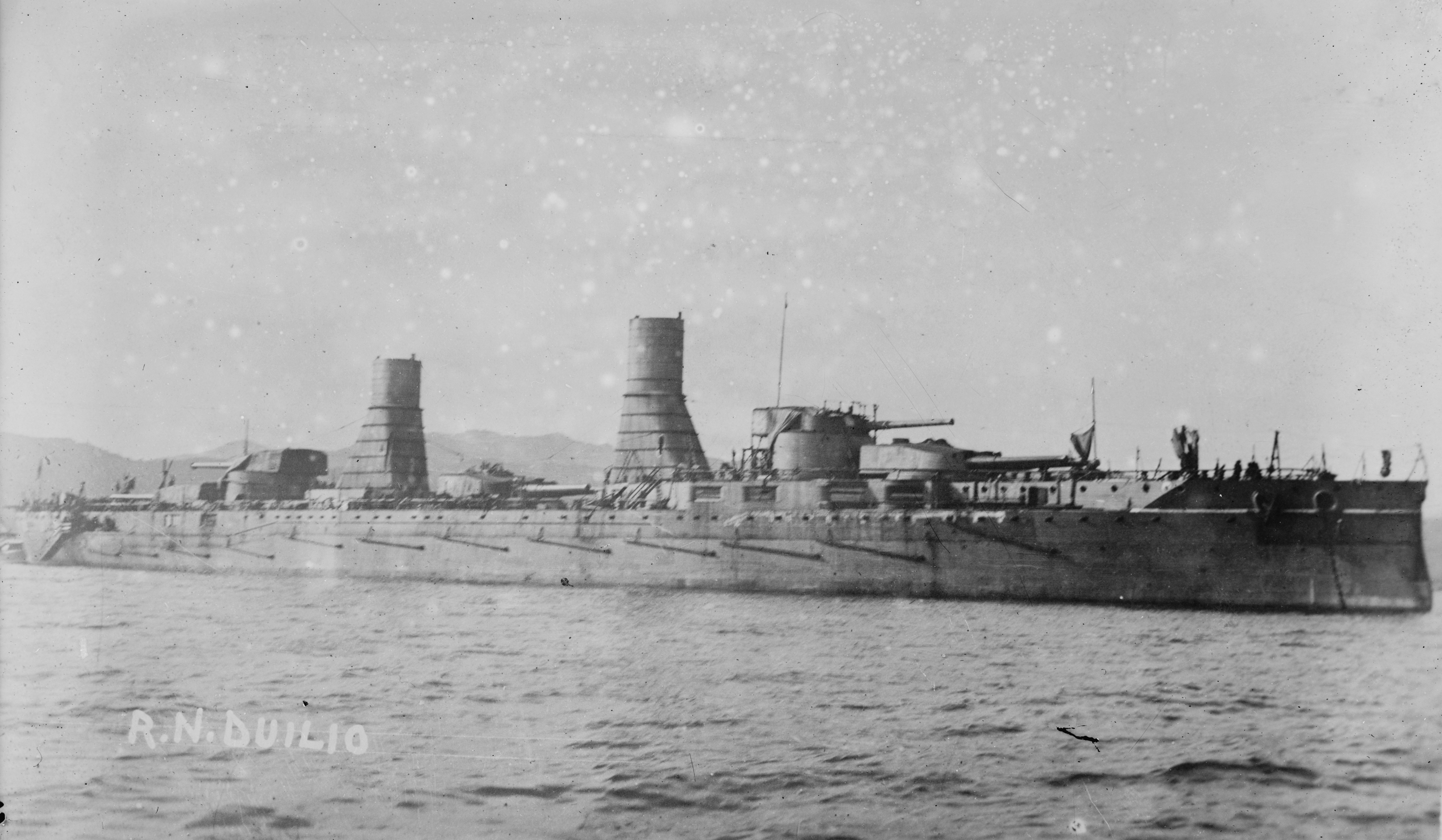 Italian battleship Caio Duilio